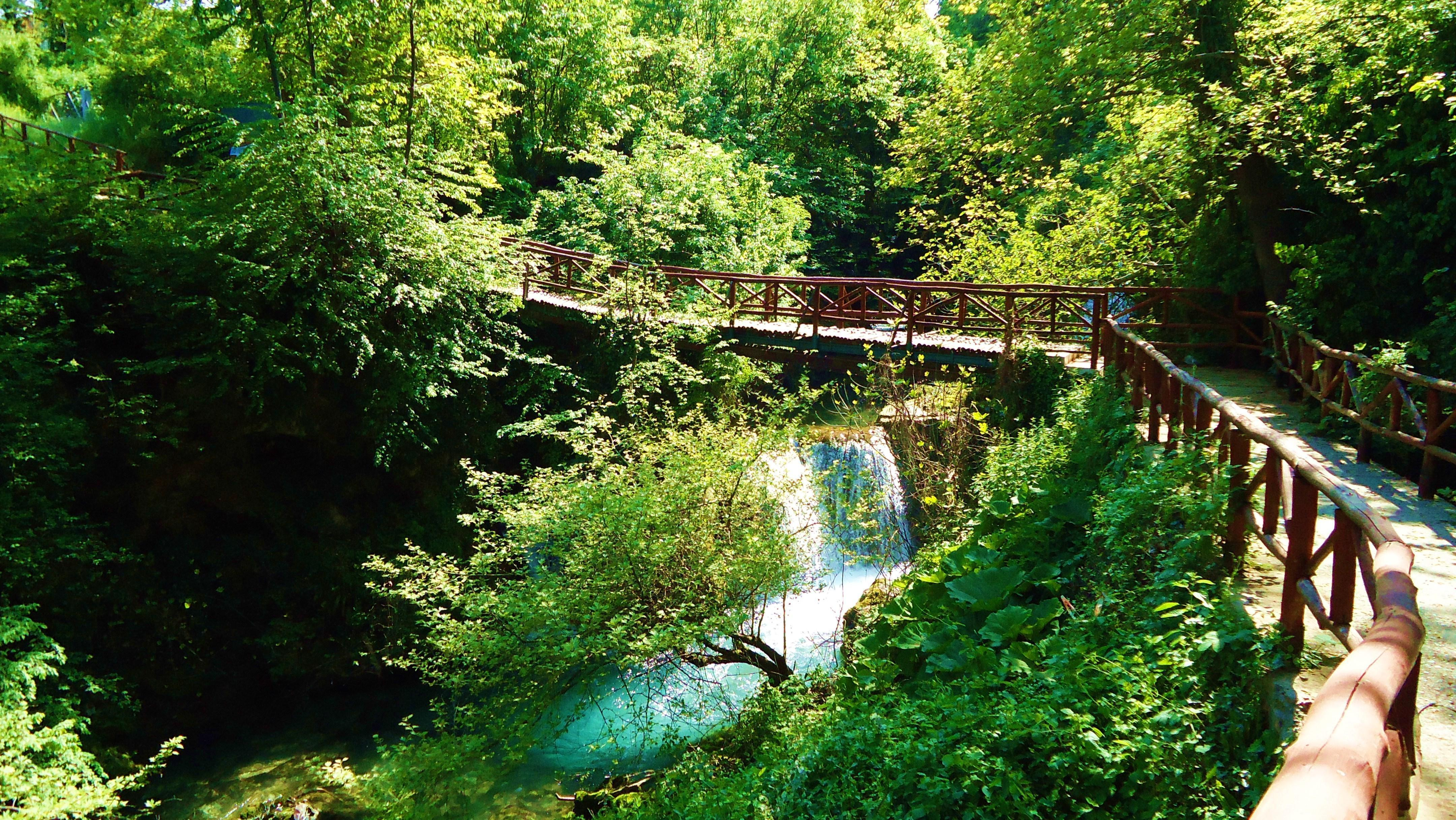 the traditional bridge over arapitsa river in Naoussa